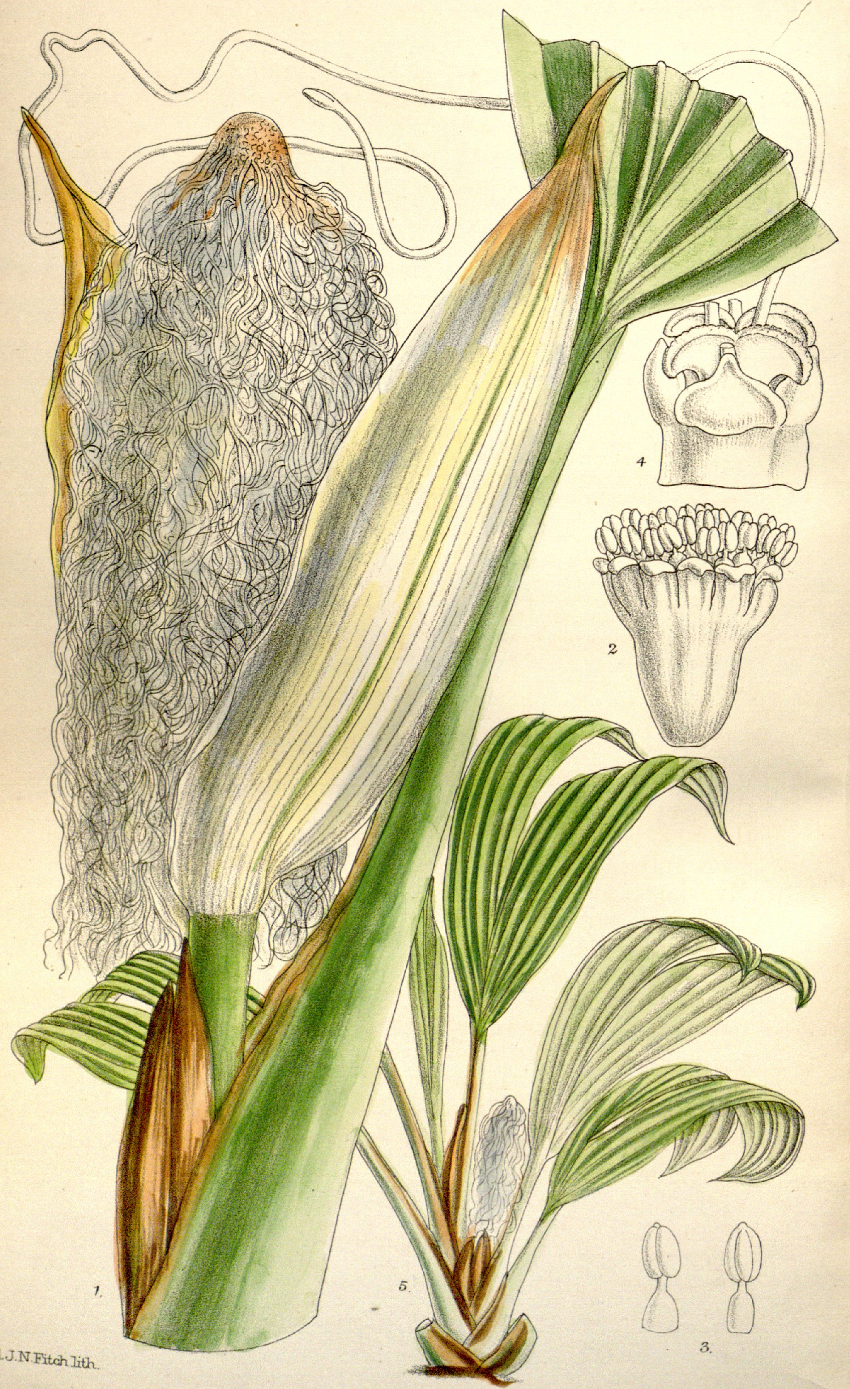 Sphaeradenia laucheana